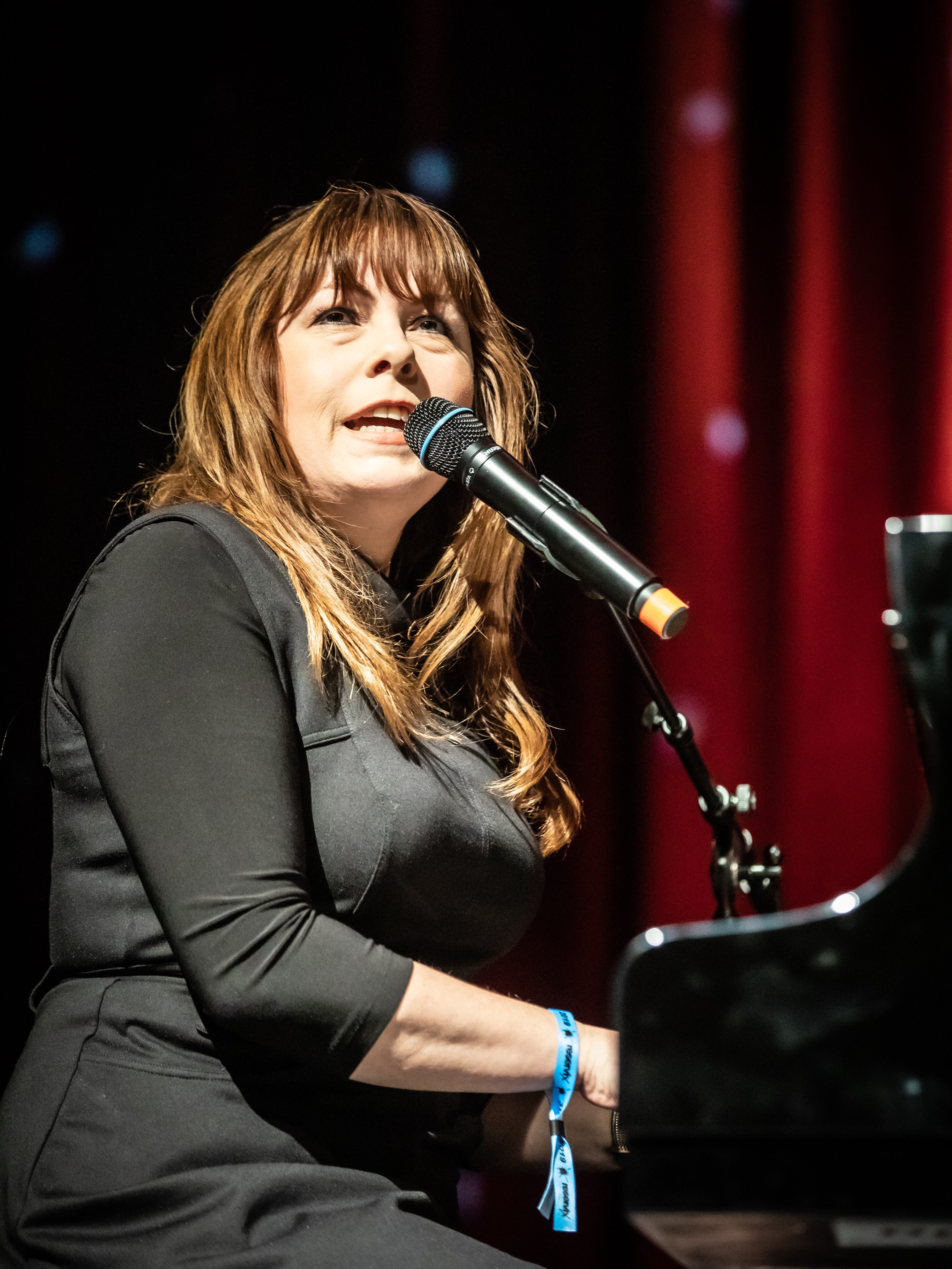 Kabarett artist and musician Katie Freudenschuss at the Kulturbörse Freiburg 2019